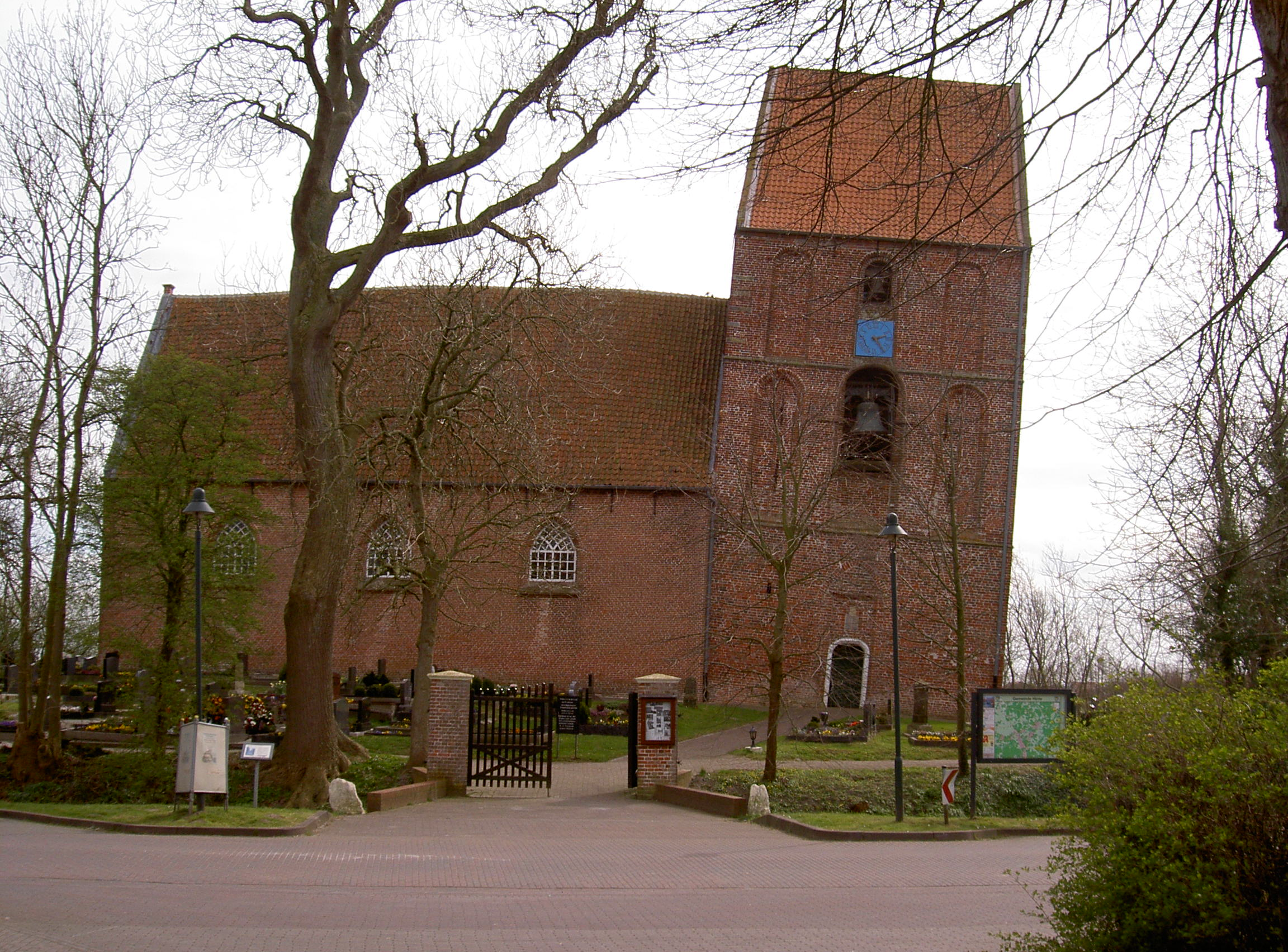 Leaning Tower of Suurhusen in East Frisia, Germany